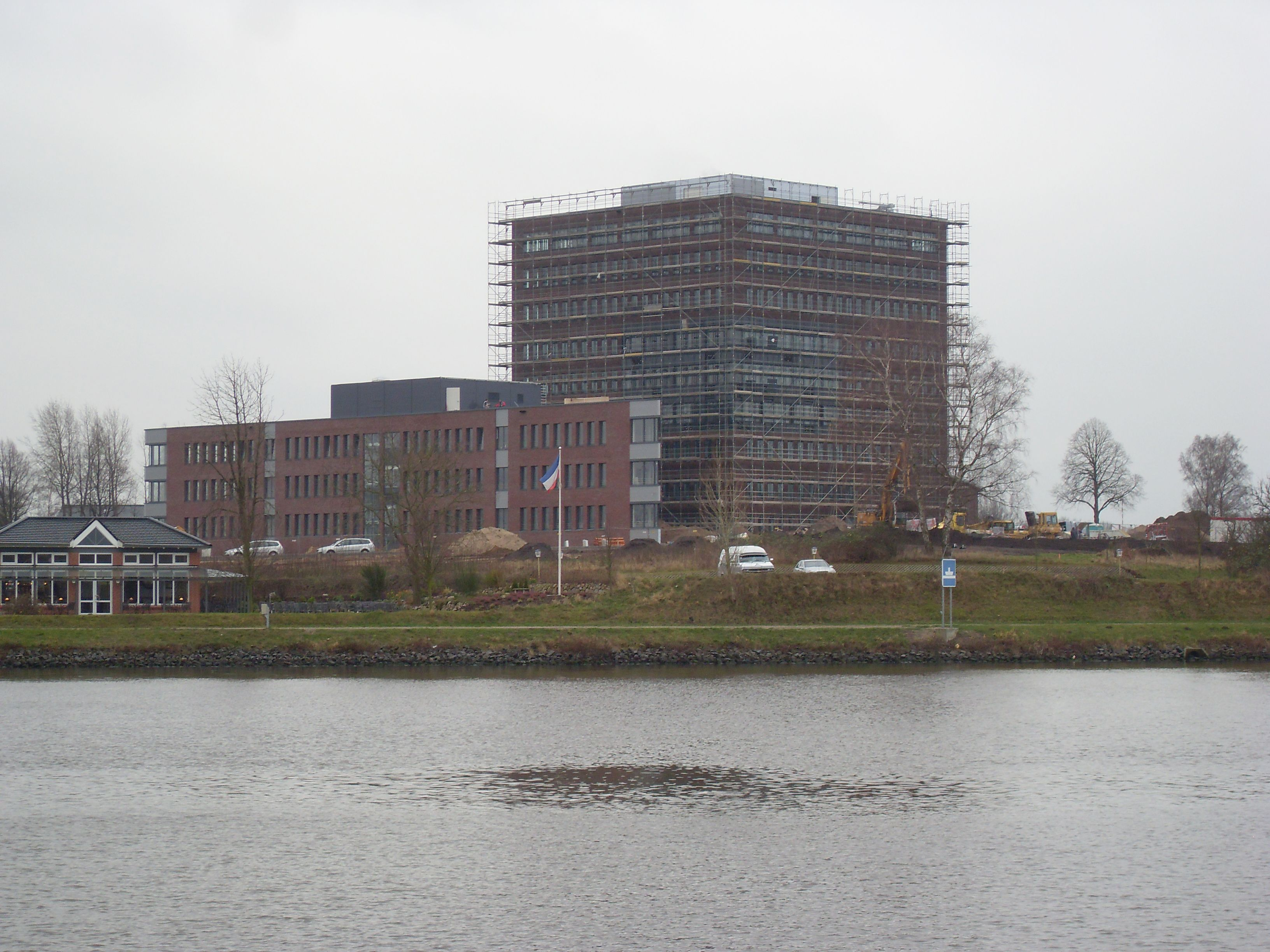 New REpower administrative building in Osterrönfeld taken from Rendsburger Kreishafen, Germany